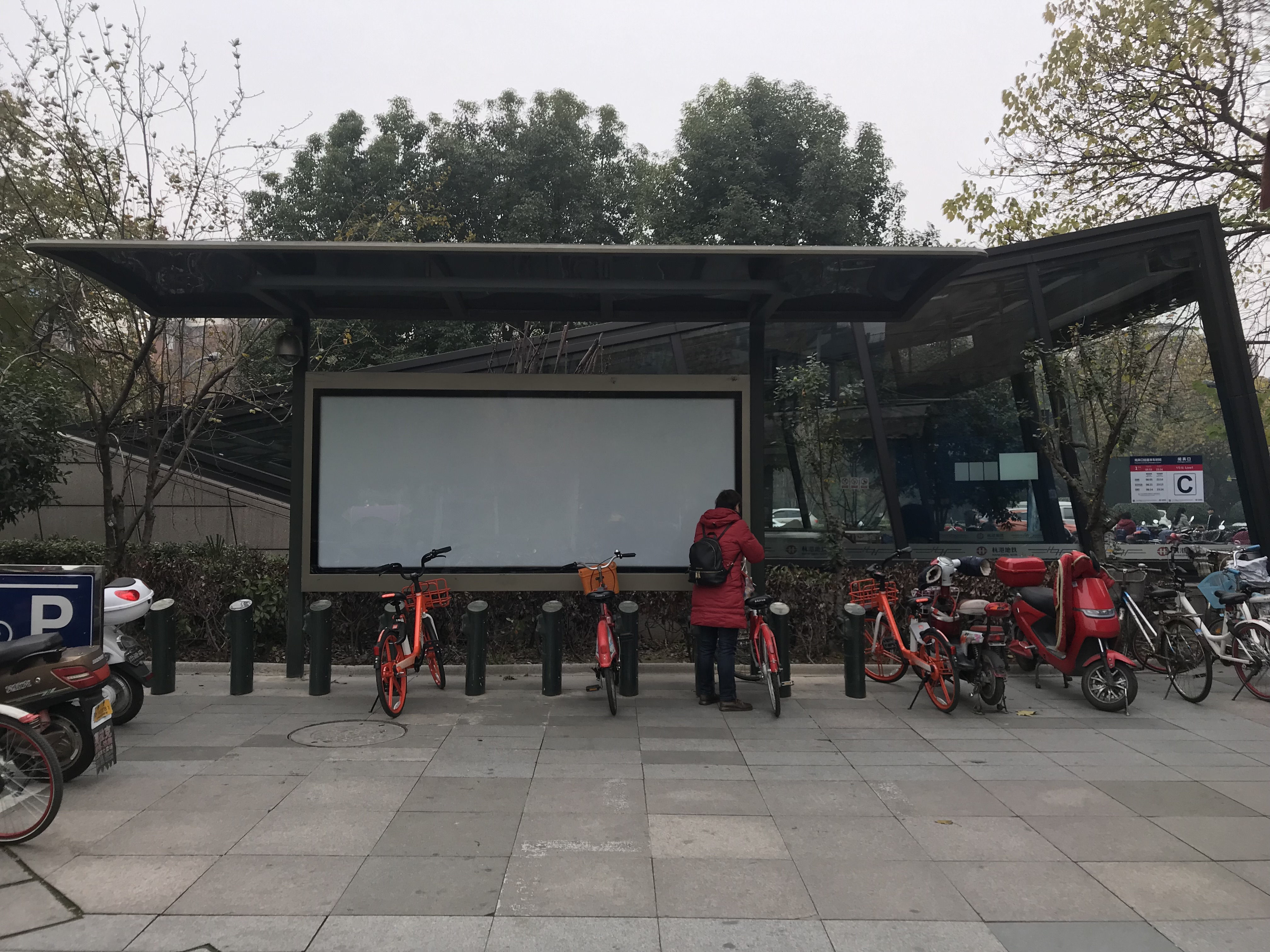 201812 Hangzhou Public Bicycle Rack Station near Zhalongkou Station